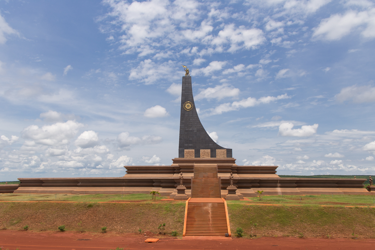 The “December 2” Memorial Monument to commemorate the establishment of the Solidarity Front for the Development of the Cambodian Motherland (SFDCM) was inaugurated this morning in Snuol district, Kratie province. The inauguration ceremony was held under the presidency of National Assembly President Samdech Akka Moha Ponhea Chakrei Heng Samrin, on the occasion of the 35th Founding Anniversary of SFDCM, formerly known as the United Front for National Salvation of Kampuchea, which was established on Dec. 2, 1978 at Choeung Khlou village, “December 2” commune, Snuol district, Kratie province, to liberate the country from the Khmer Rouge genocidal regime. The “December 2” Memorial Monument was erected on an area of 22.98 ha with a total cost of some US$3.88 million. The United Front for National Salvation of Kampuchea was led by Cambodia’s leaders including National Assembly President Samdech Akka Moha Ponhea Chakrei Heng Samrin, Senate President Samdech Akka Moha Thamma Pothisal Chea Sim, and Prime Minister Samdech Akka Moha Sena Padei Techo Hun Sen, and other Cambodian compatriots to liberate Cambodia from starvation, heavy labor forces and genocide of the Khmer Rouge Regime that ruled the country from 1975-1979.